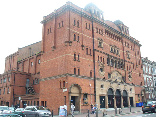 The Clapham Grand Monumentally large brick building on St John's Hill, nearly opposite the entrance to Clapham Junction Station. Now renovated and in use as a nightclub.